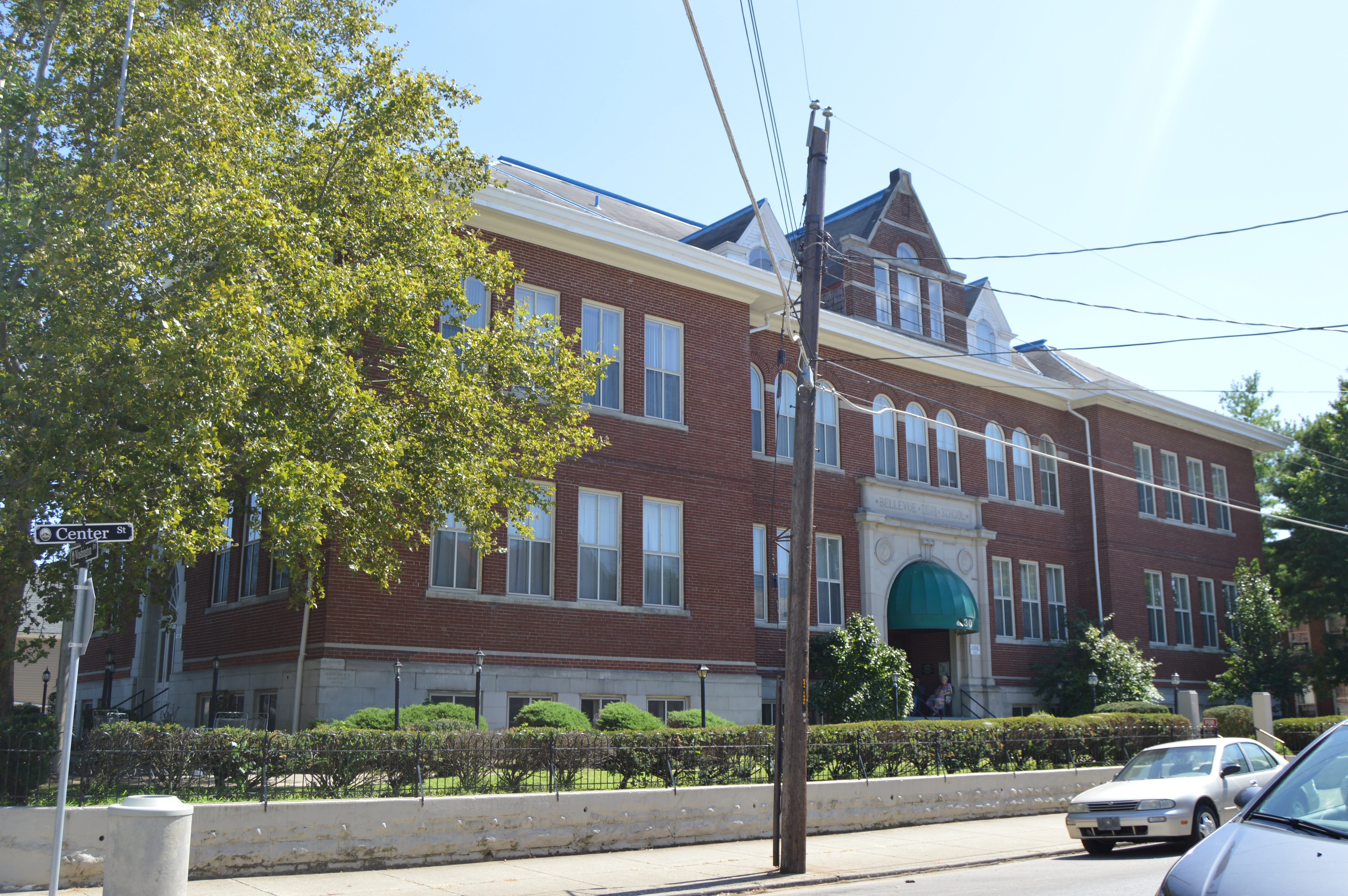 Front of the former Bellevue High School, located at the junction of Washington and Center Streets in Bellevue, Kentucky, United States. Built in 1905, it is listed on the National Register of Historic Places, and it is part of a Register-listed historic district, the Taylor's Daughters Historic District.